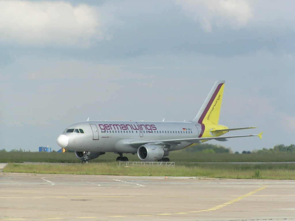 Airbus A319-100 (D-AILI) of Germanwings at Berlin-Schönefeld Airport